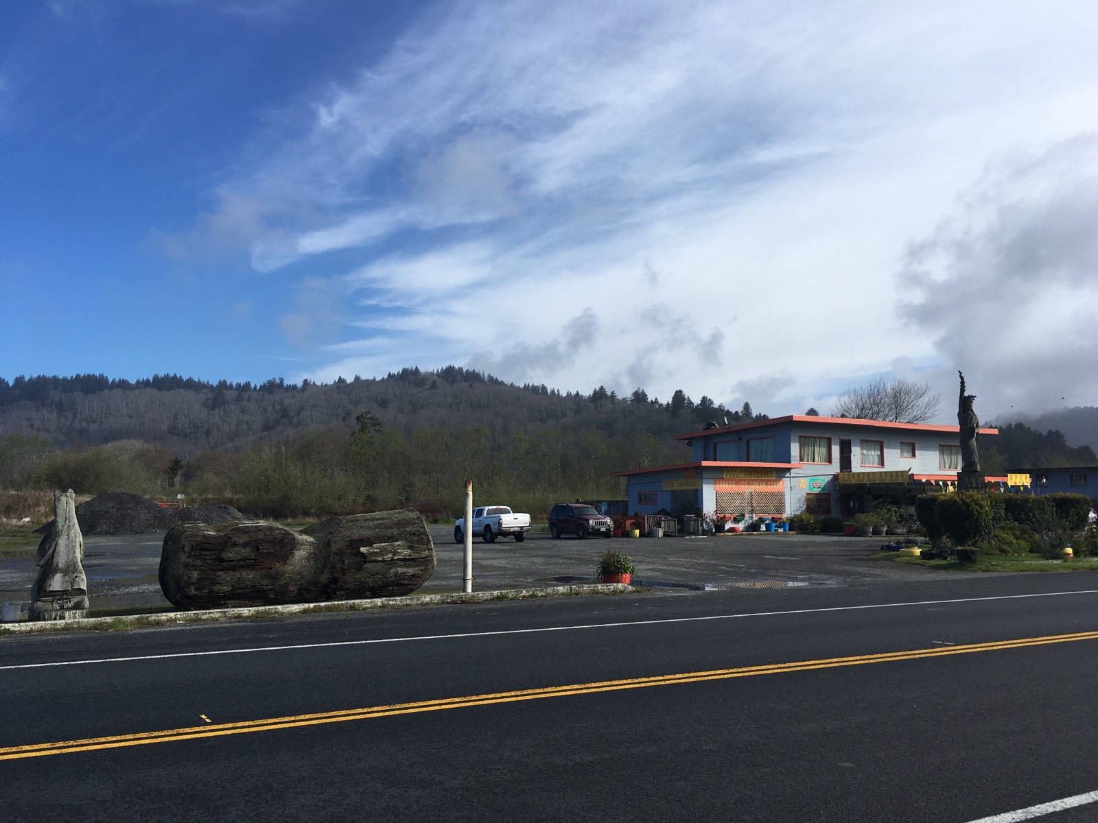 Photo of the Orick Peanut, located in the parking lot of a local gas station and market in Orick